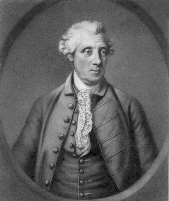 Simon Harcourt, 1st Earl Harcourt